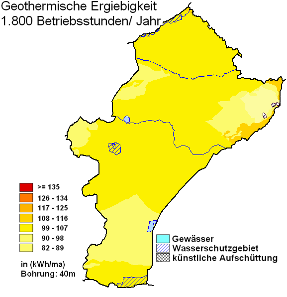 geothermal map of Rietberg